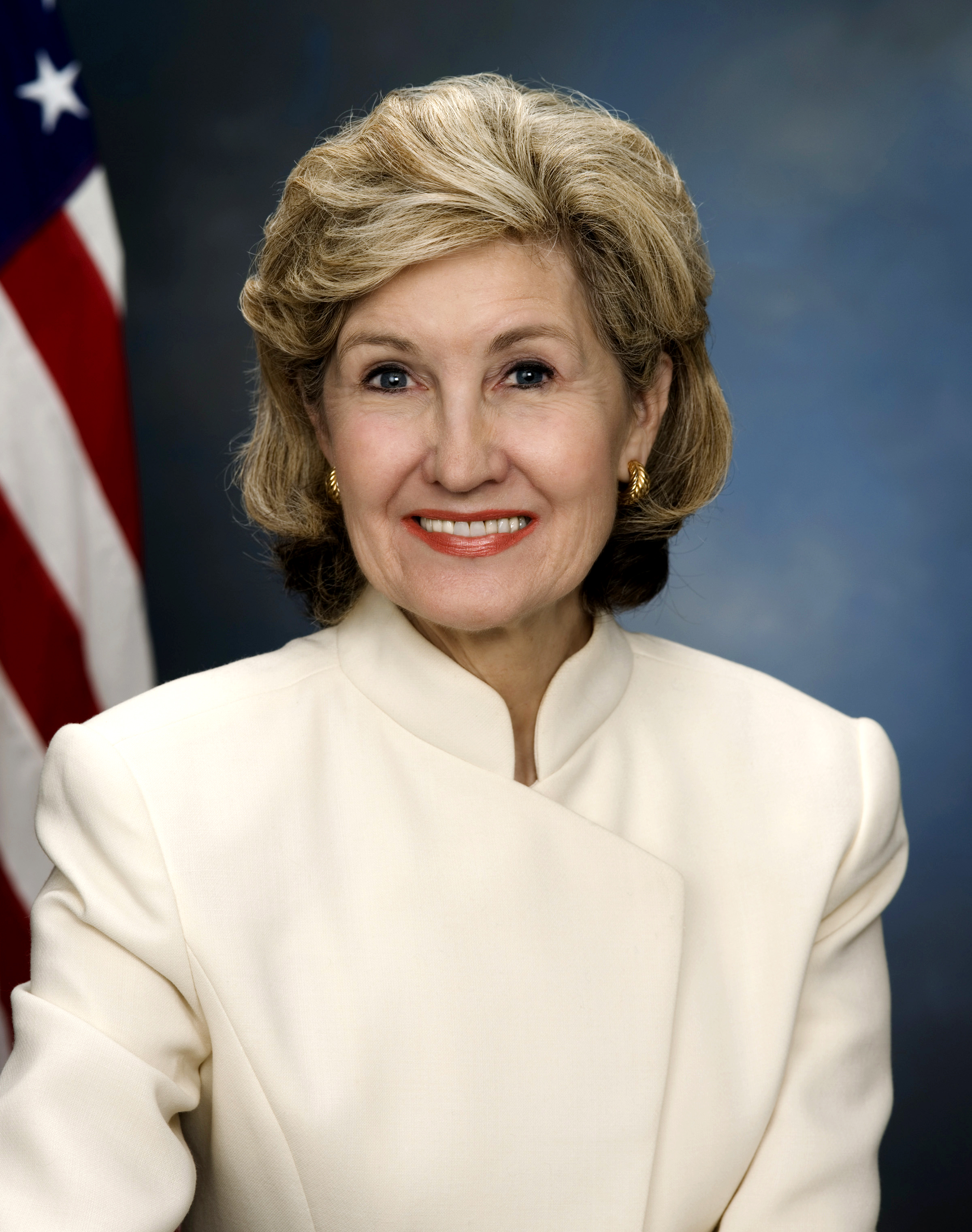 Kay Bailey Hutchison, member of the United States Senate.